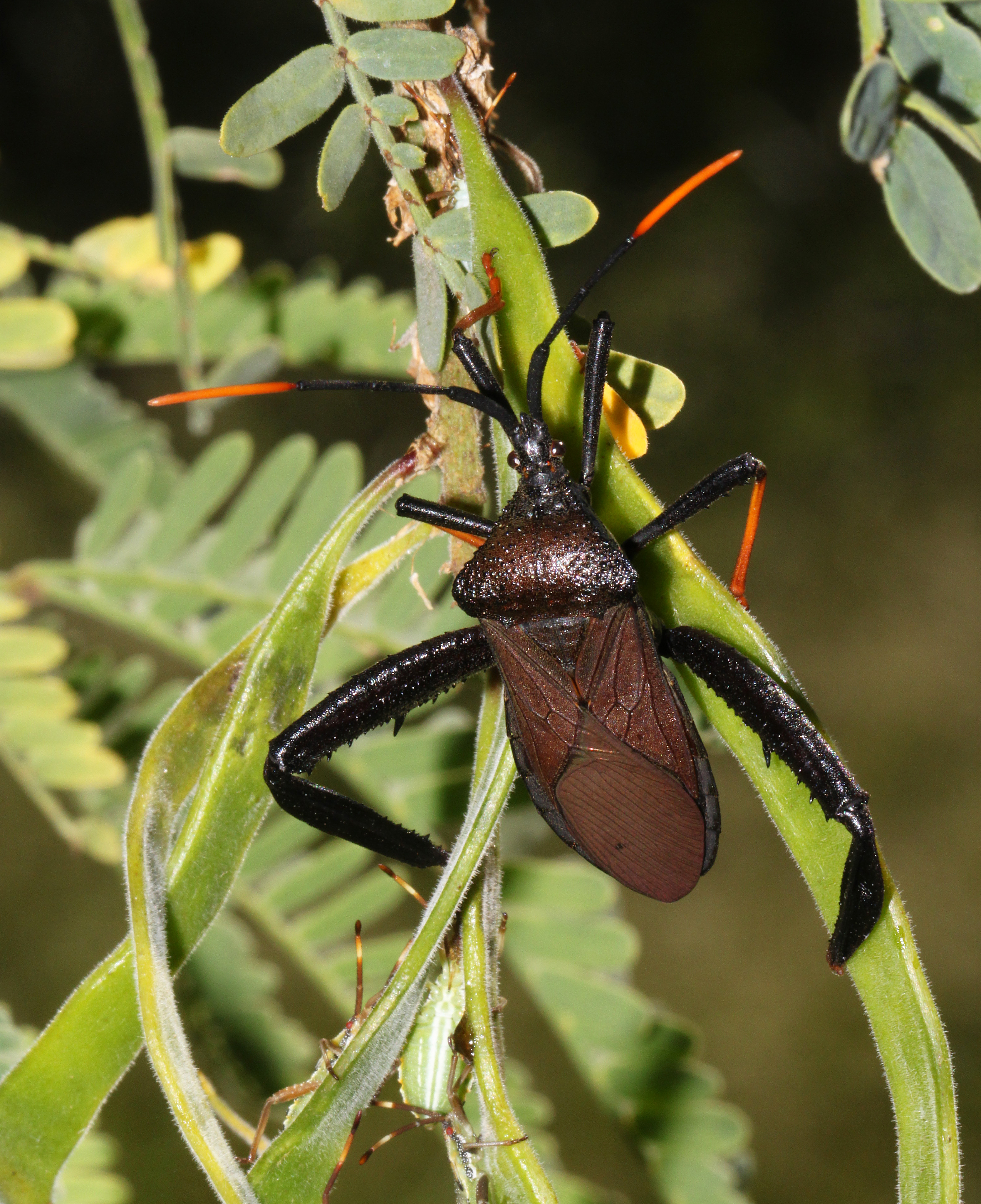 "Bugs"